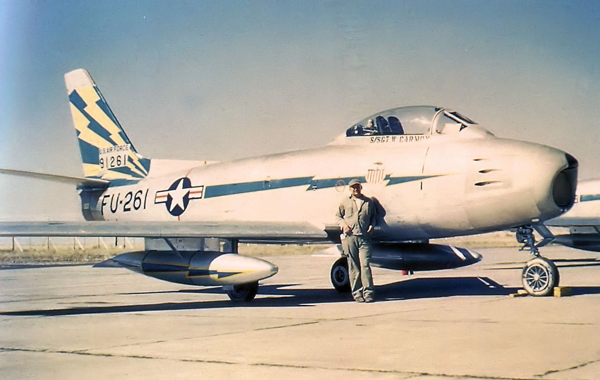 91st Fighter-Interceptor Squadron - North American F-86A-5-NA Sabre - 49-1261